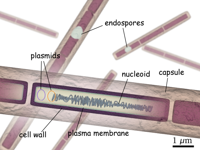 Structure of Bacillus anthracis.